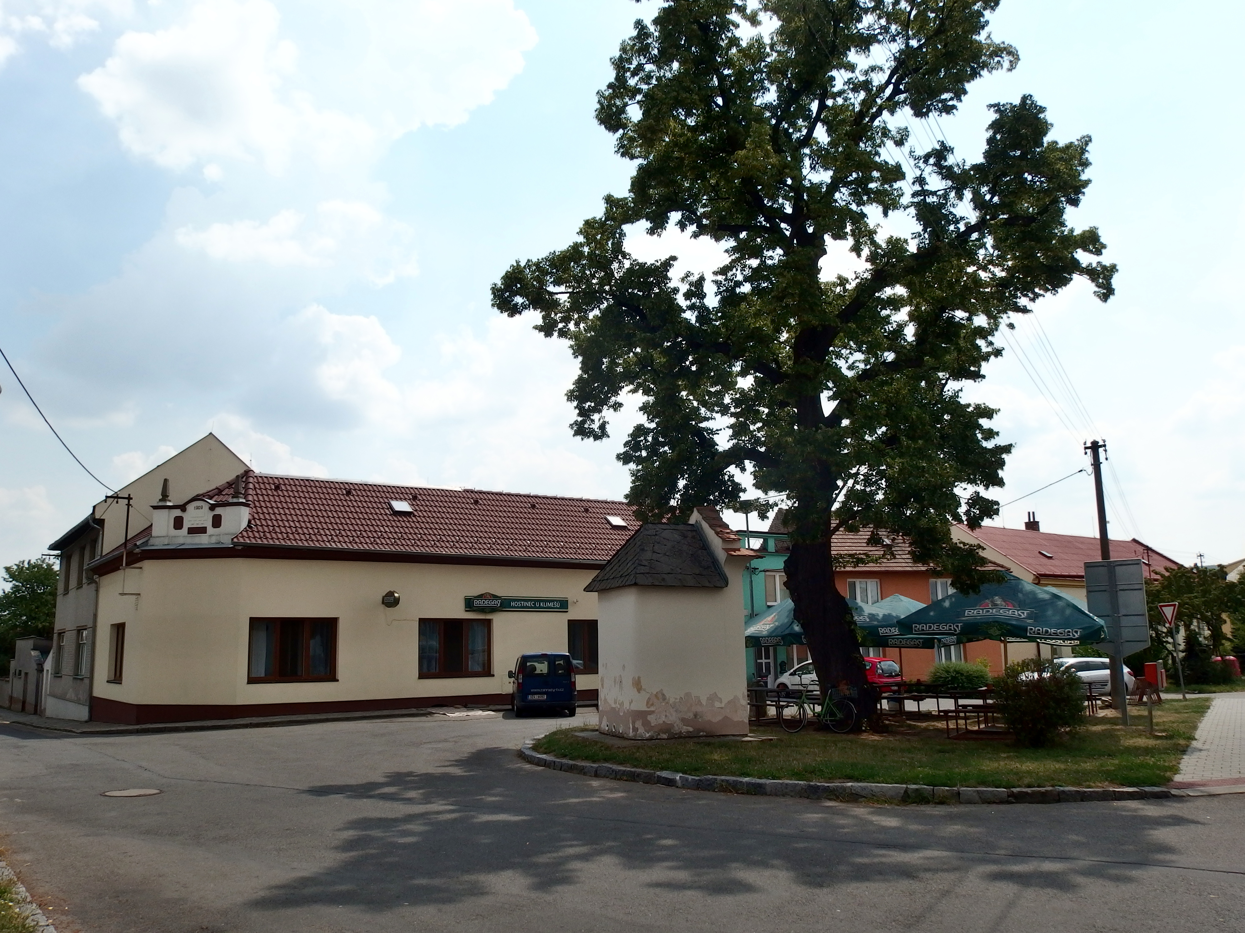 Kroměříž, Czech Republic, part Vážany.